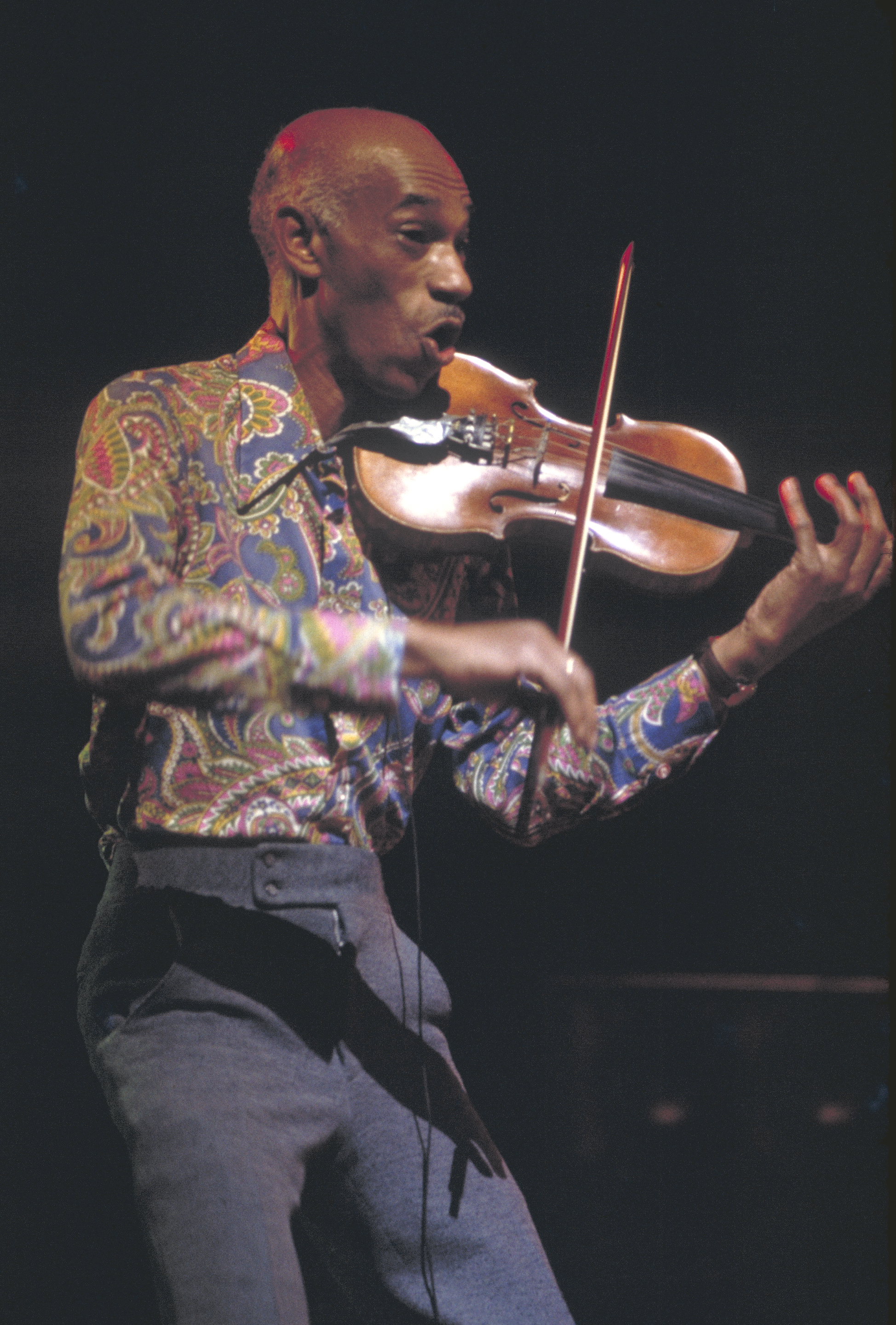 Papa John Creach, fiddler for Jefferson Starship